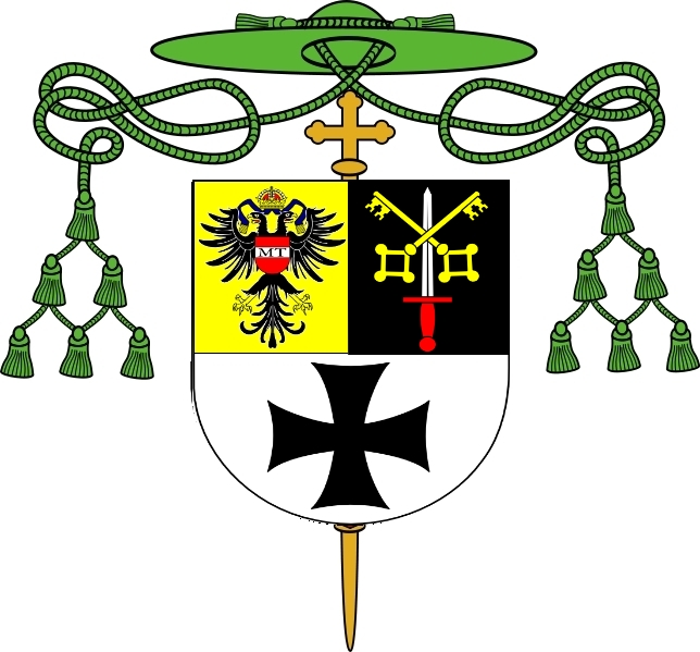 Coat of arms of Norbert Johann Klein, Bishop of Brno 1919-1926